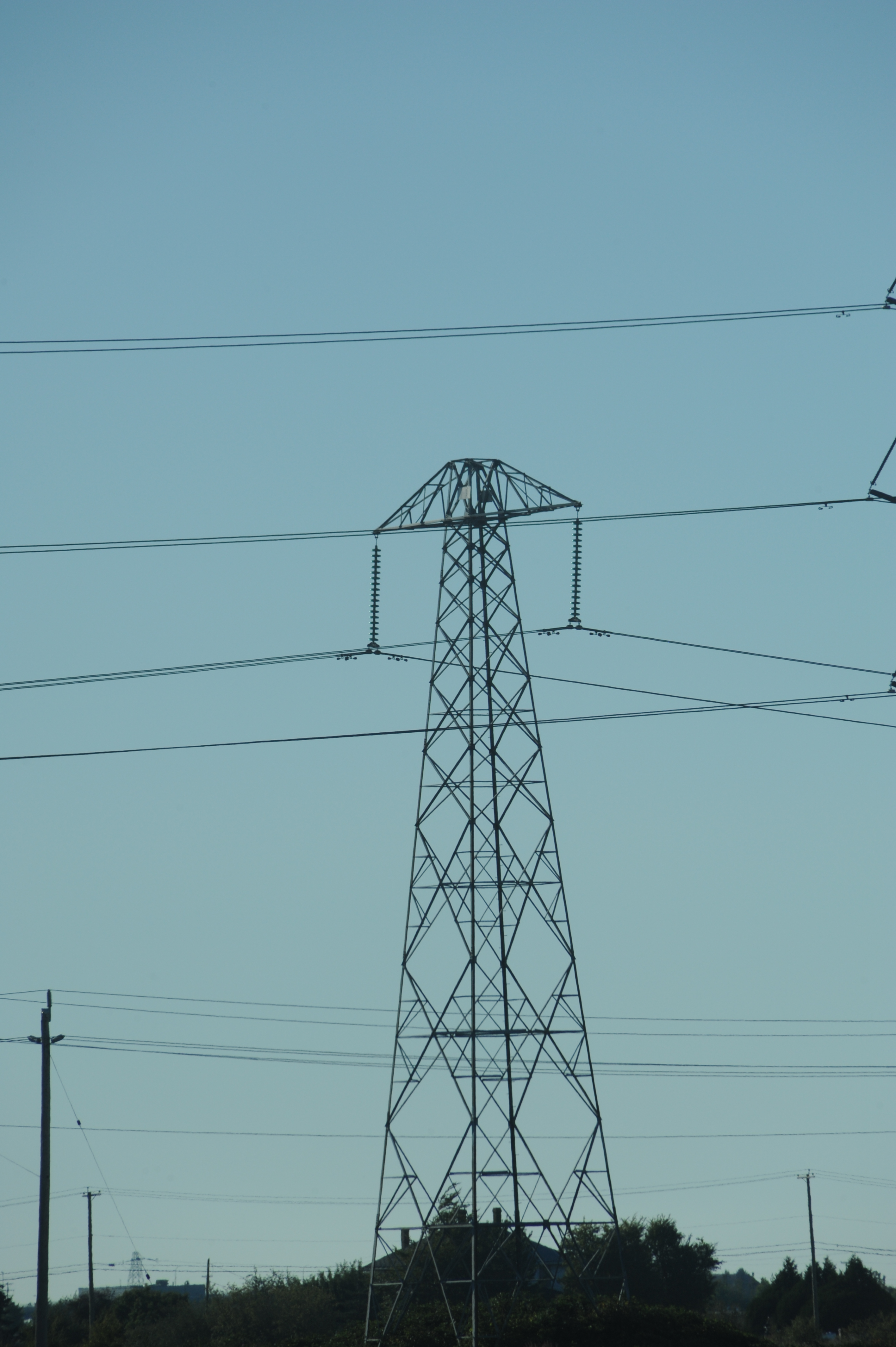 This is one tower on the HVDC (High Voltage Direct Current) line going to Vancouver Island and Victoria